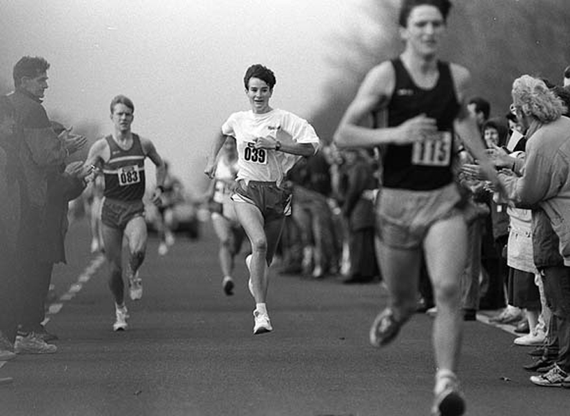 Wearing No. 39 is Olympic athlete Sonia O'Sullivan in the Oman Cup Race at the Phoenix Park in Dublin. Particularly good to start 2012 with this photo, as the Phoenix Park is 350 years old this year. Date: 1 January 1992 NLI Ref.: IND192-9[29]